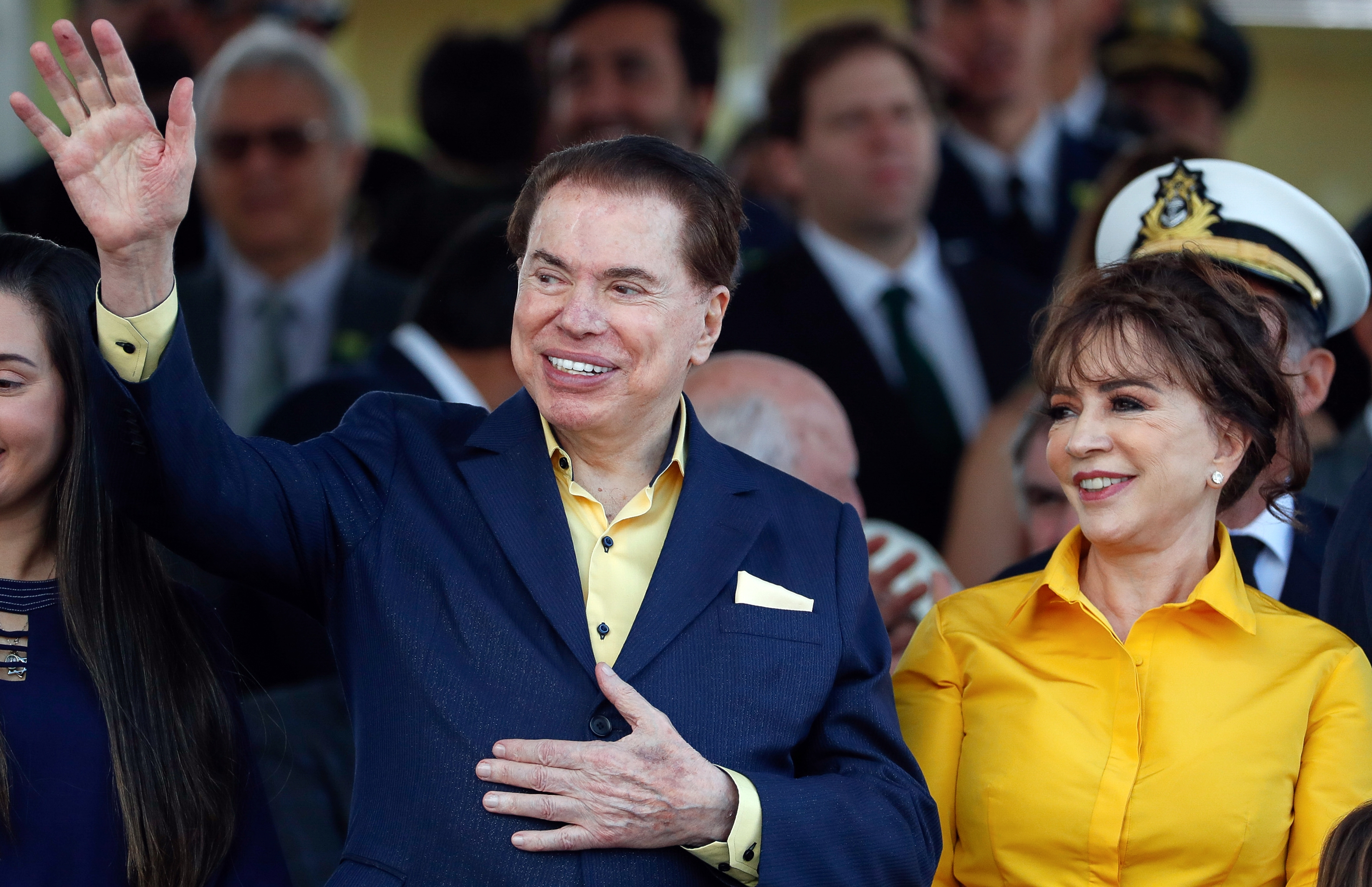 (Brasília - DF, 07/09/2019) Presdiente da República, Jair Bolsonaro, durante desfile Cívico por ocasião do Dia da Pátria Foto: Alan Santos/PR